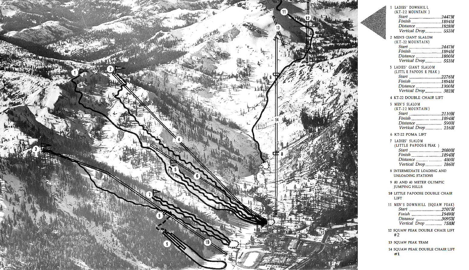 Squaw Valley 1960 - Alpine Skiing Venues